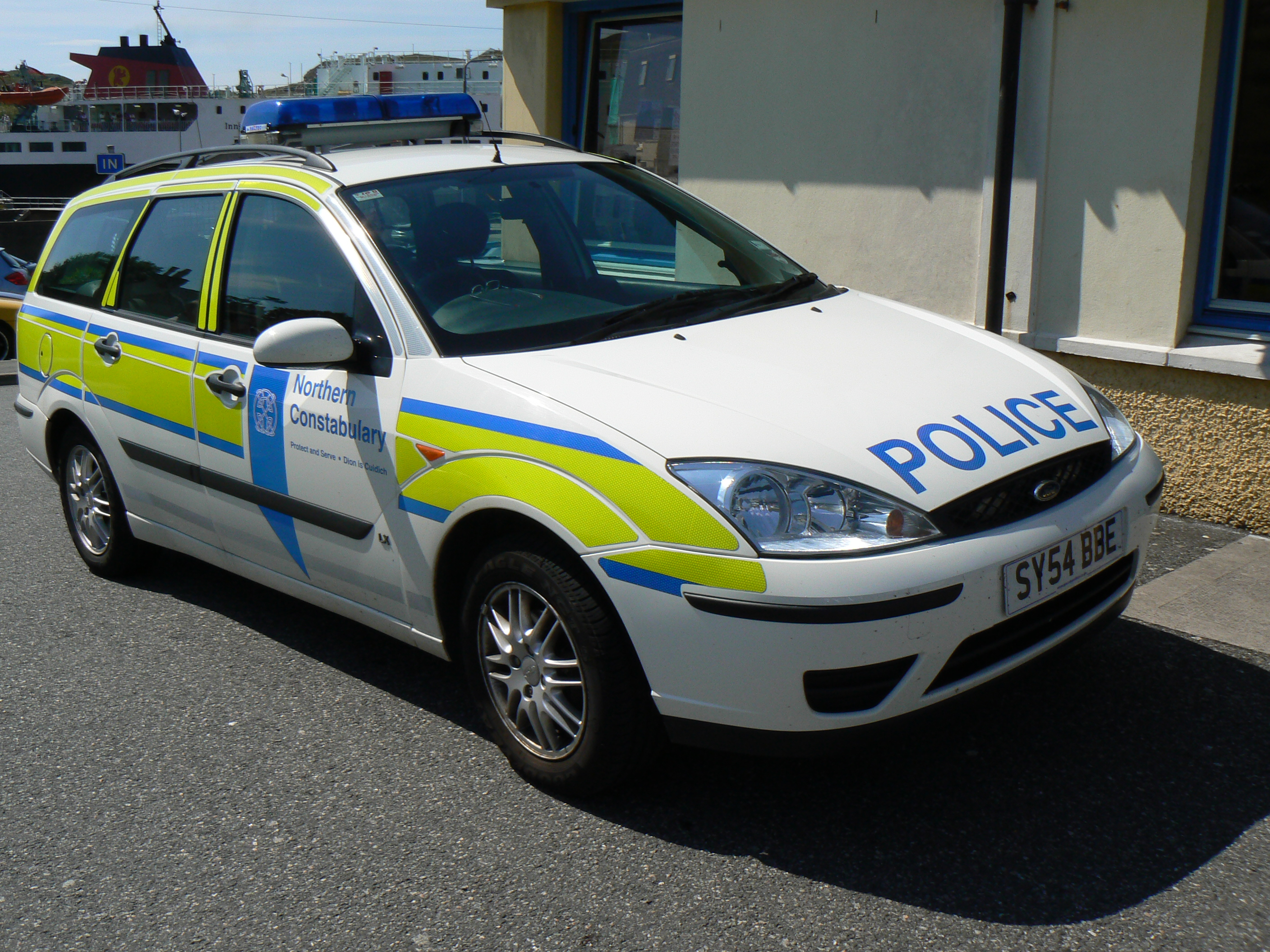 Northern Constabulary Ford Focus 'panda car' parked outside the Tourist Information Office in Tarbert, Isle of Harris, Scotland